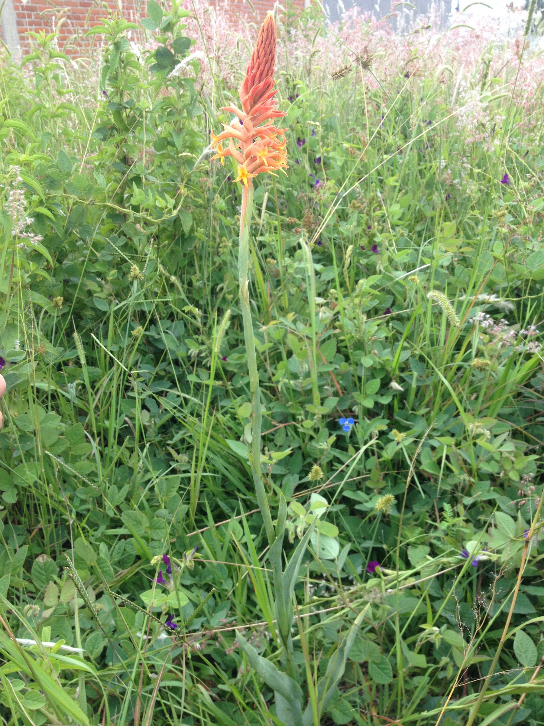 "Scarlet ladies' tresses" is the common name of Dichromanthus cinnabarinus, an orchid native to Texas, Mexico and Guatemala.